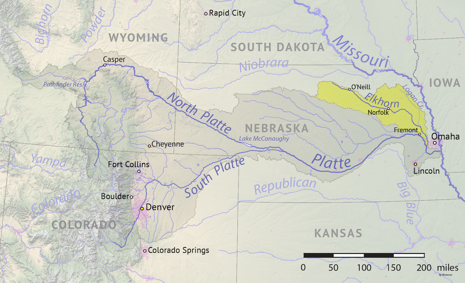 Map of the Elkhorn River drainage basin, a tributary of the Platte River, in the central US. Made using USGS National Map and NASA SRTM data.